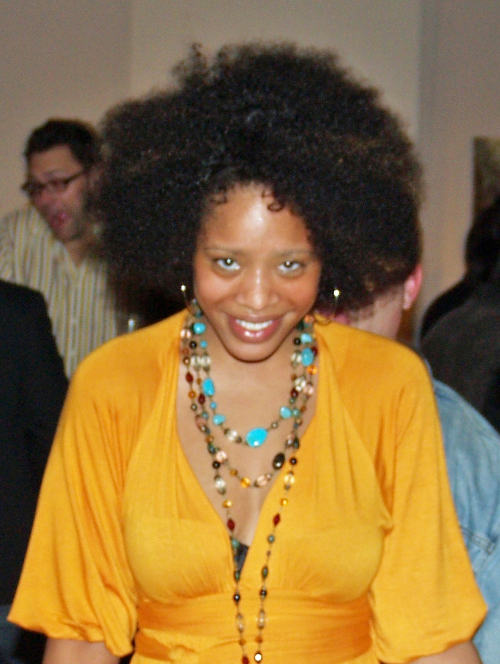 Afro-ed dancer at the Tribeca Film Festival